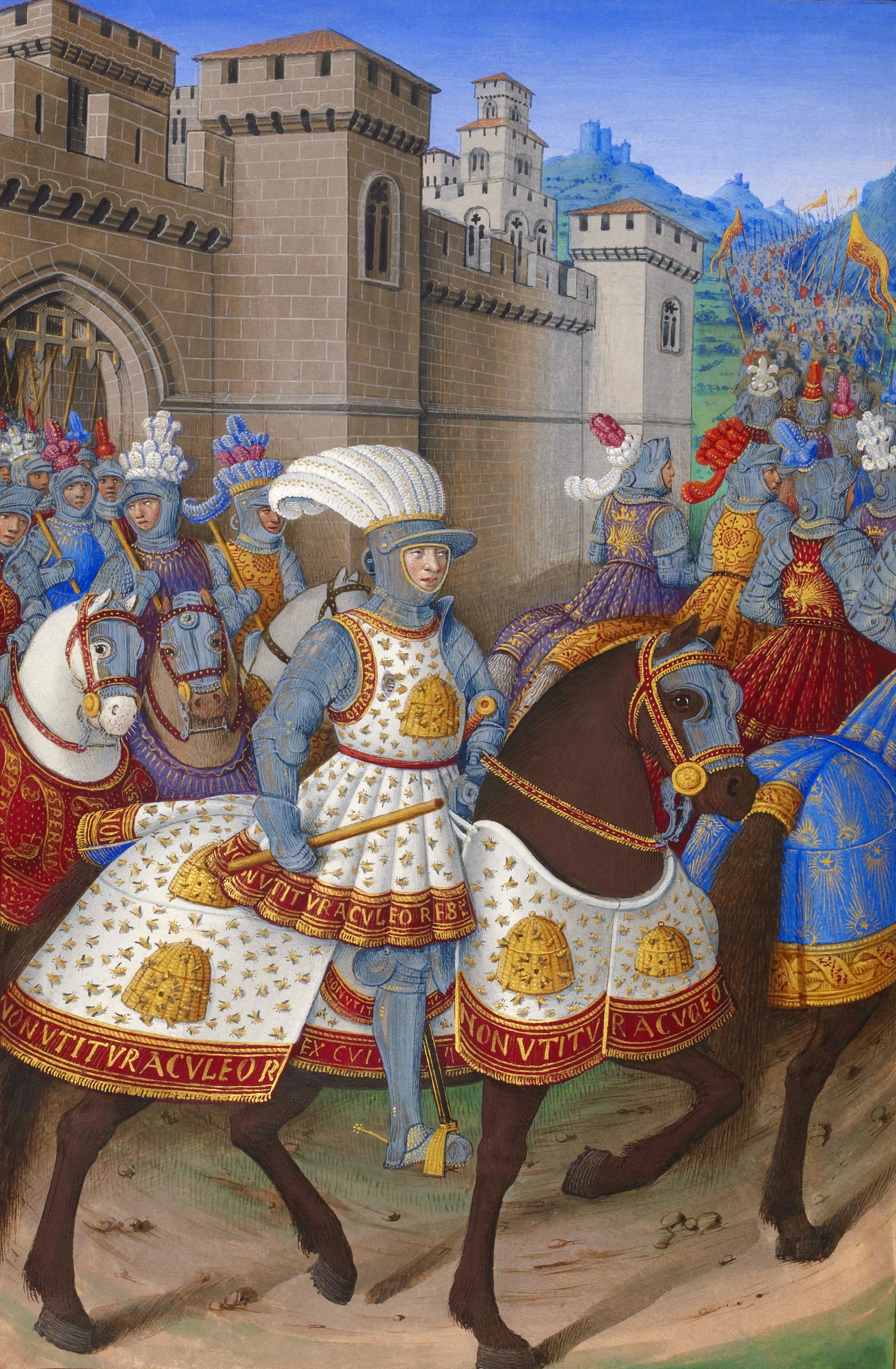 King of France Louis XII in 1507 riding out of the fortress of Alexandria with his army, in order to retake the city of Genoa, which had rebelled against him (January to May 1507 campaign). Fifth illuminated miniature in the manuscript Le Voyage de Gênes (ca.1500), by Jean Marot (ca.1450 - ca.1526). The motto "NON UTITUR ACULEO REX CUI PAREMUR" means "the King whom we obey does not use his sting", referring to the ancient Classical belief (Pliny, Seneca) that a colony of bees (or wasps) was ruled by a benign king bee in an ideal society. Thus bees and a wickerwork skep are embroidered on his tunic, to suggest to his rebellious subjects in Genoa that if they will come back to order no harm will befall them. The royal heraldic badge of the porcupine is shown embroidered on the tunics of two of his retinue who precede him. A porcupines was the usual personal symbol of king Louis XII.